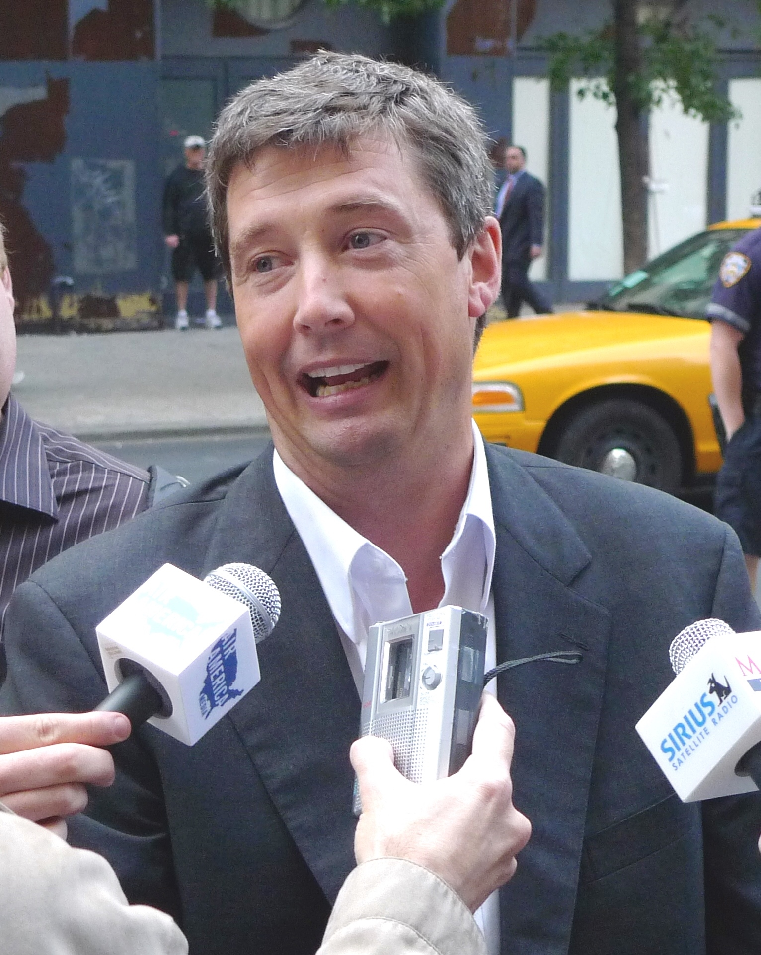 Conservative talk show host and Documentary filmmaker John Ziegler at a demonstration in New York City